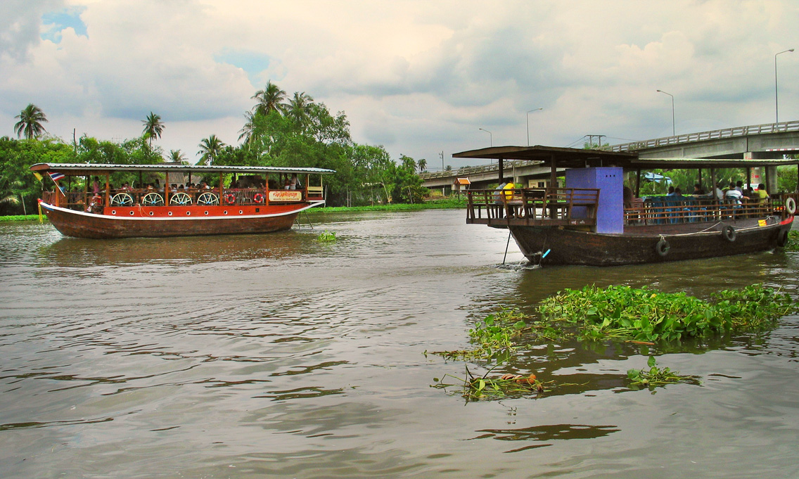 Tourist boats on Tha Chin River near Nakhon Chaisi, Nakhon Pathom Province, Thailand.